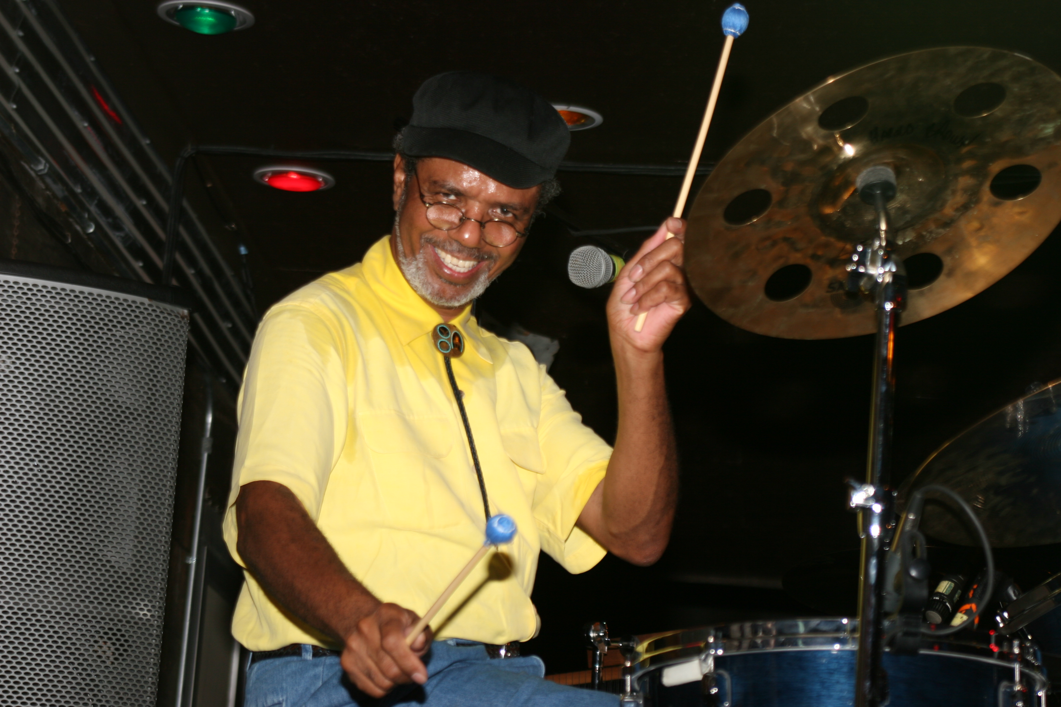 Drummer on Stage